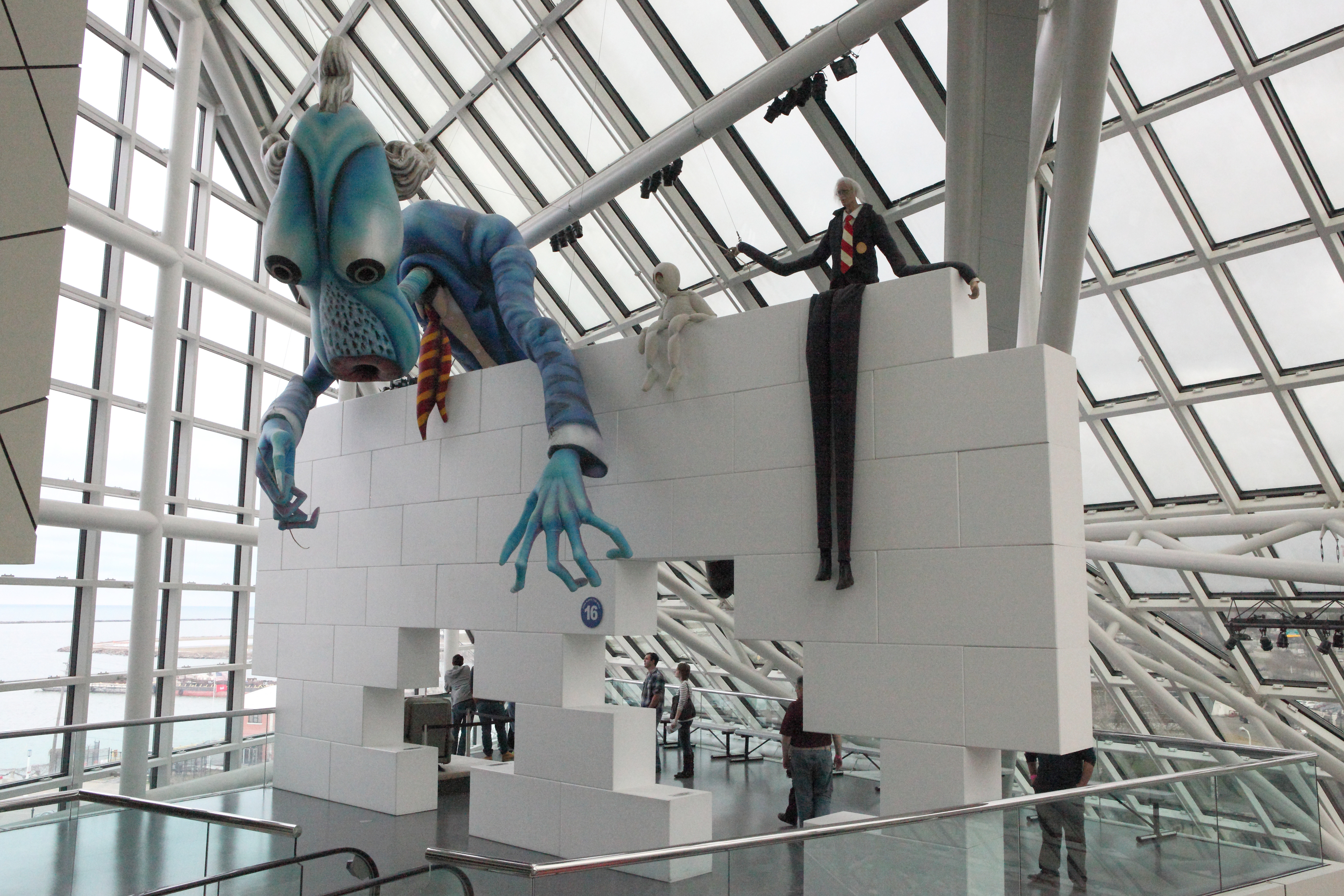 The Wall display from Pink Floyd at the Rock and Roll Hall of Fame in Cleveland, Ohio. Flickr Tags: ohio cleveland pinkfloyd thewall rockandrollhalloffame. Flickr Tags: Rock and Roll Hall of Fame Cleveland Ohio. from Flickr album "Rock and Roll Hall of Fame" by Sam Howzit